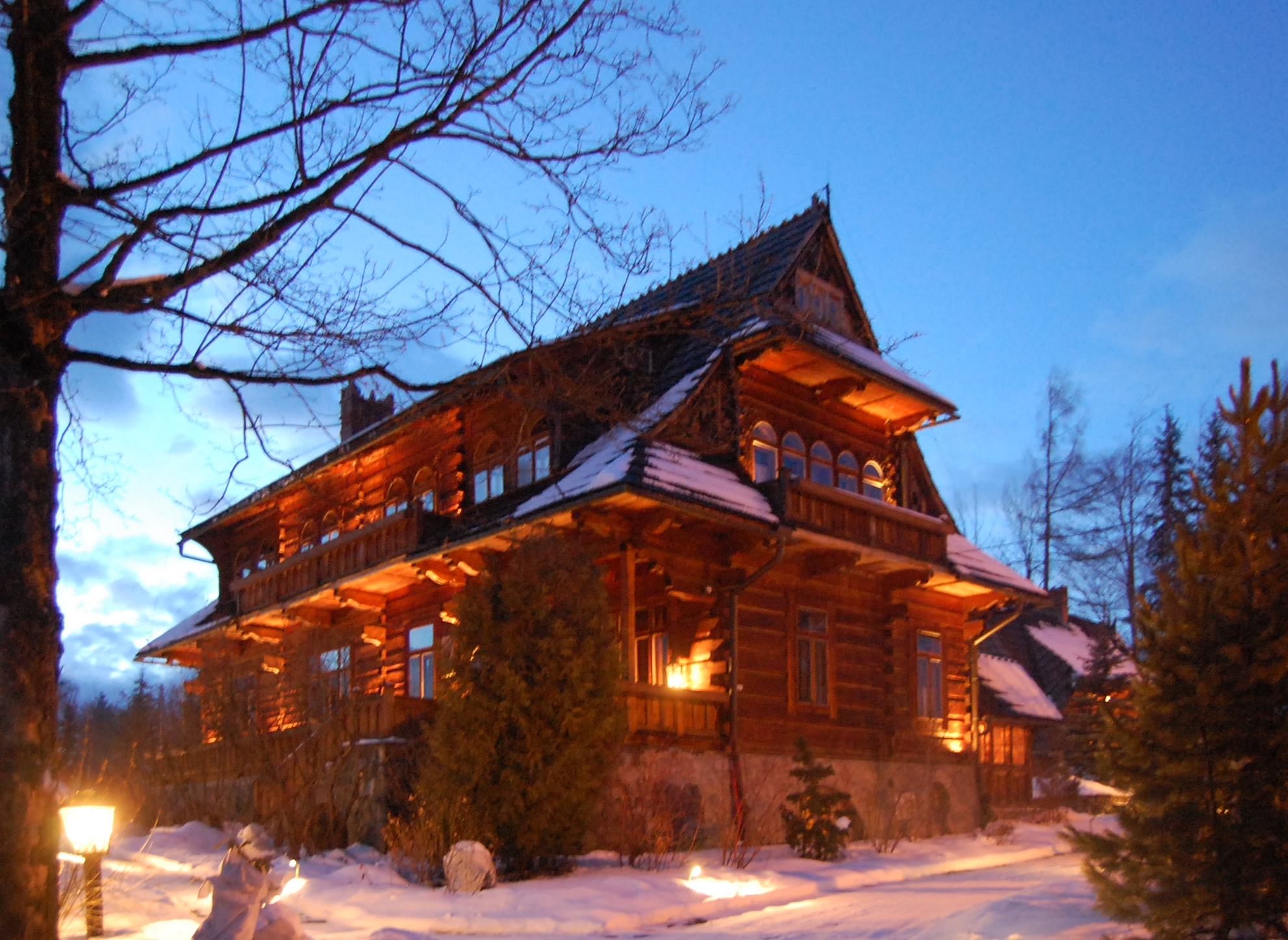 Willa Witkiewiczówka